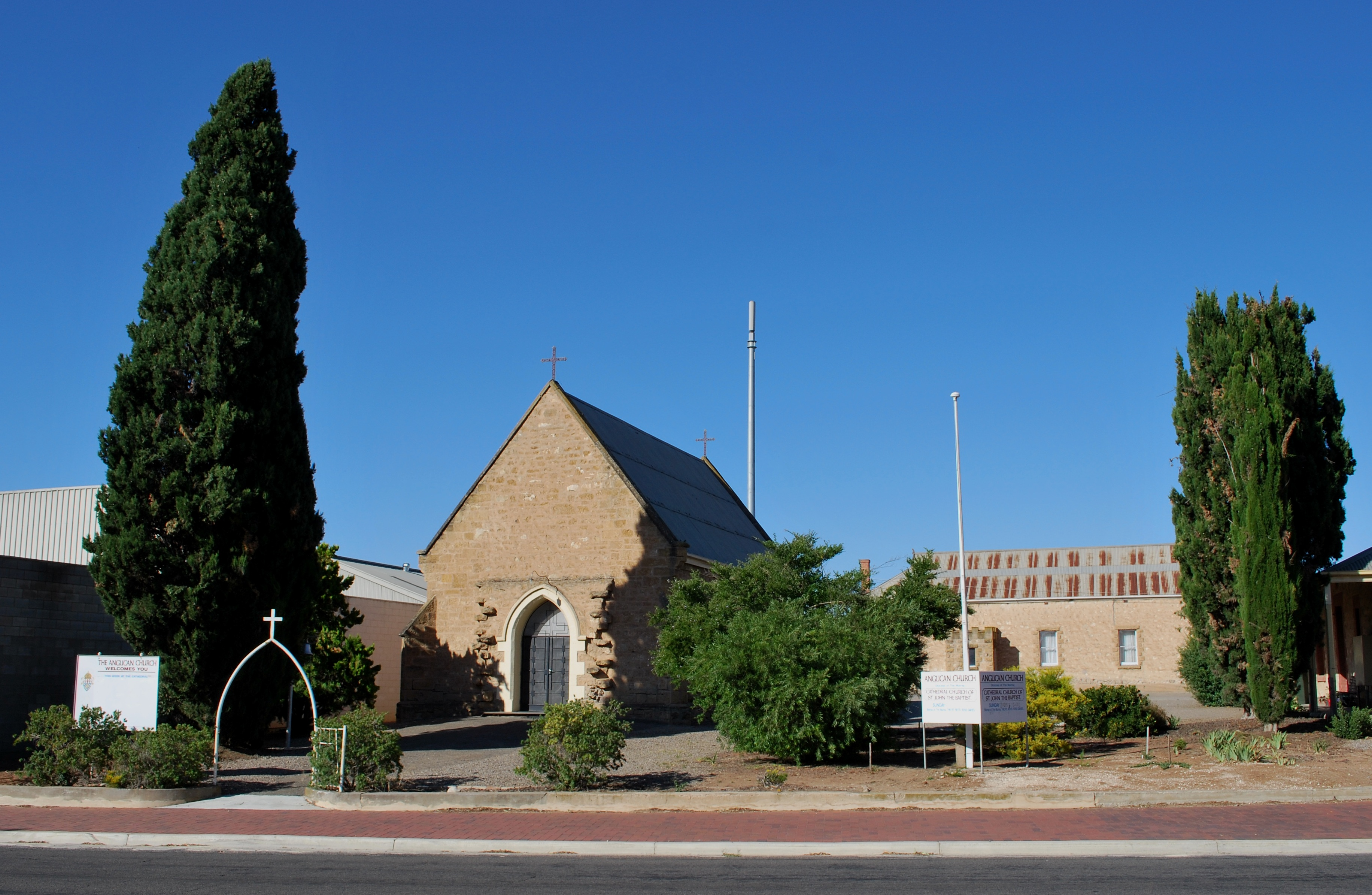 St John the Baptist Anglican cathedral church at Murray Bridge, South Australia, supposedly the smallest cathedral in the world.